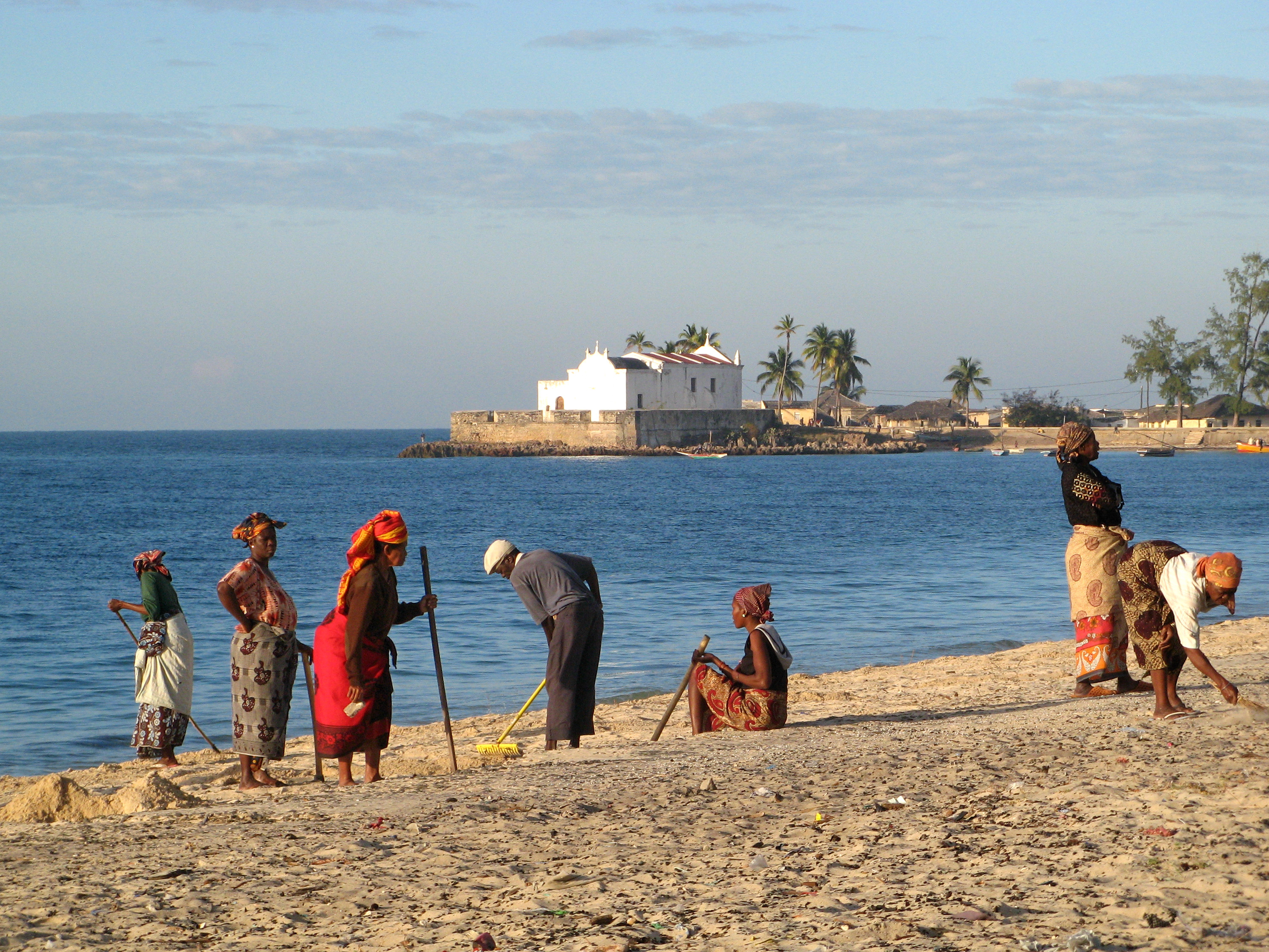 Fort and Santo António Church in Mozambique Island.